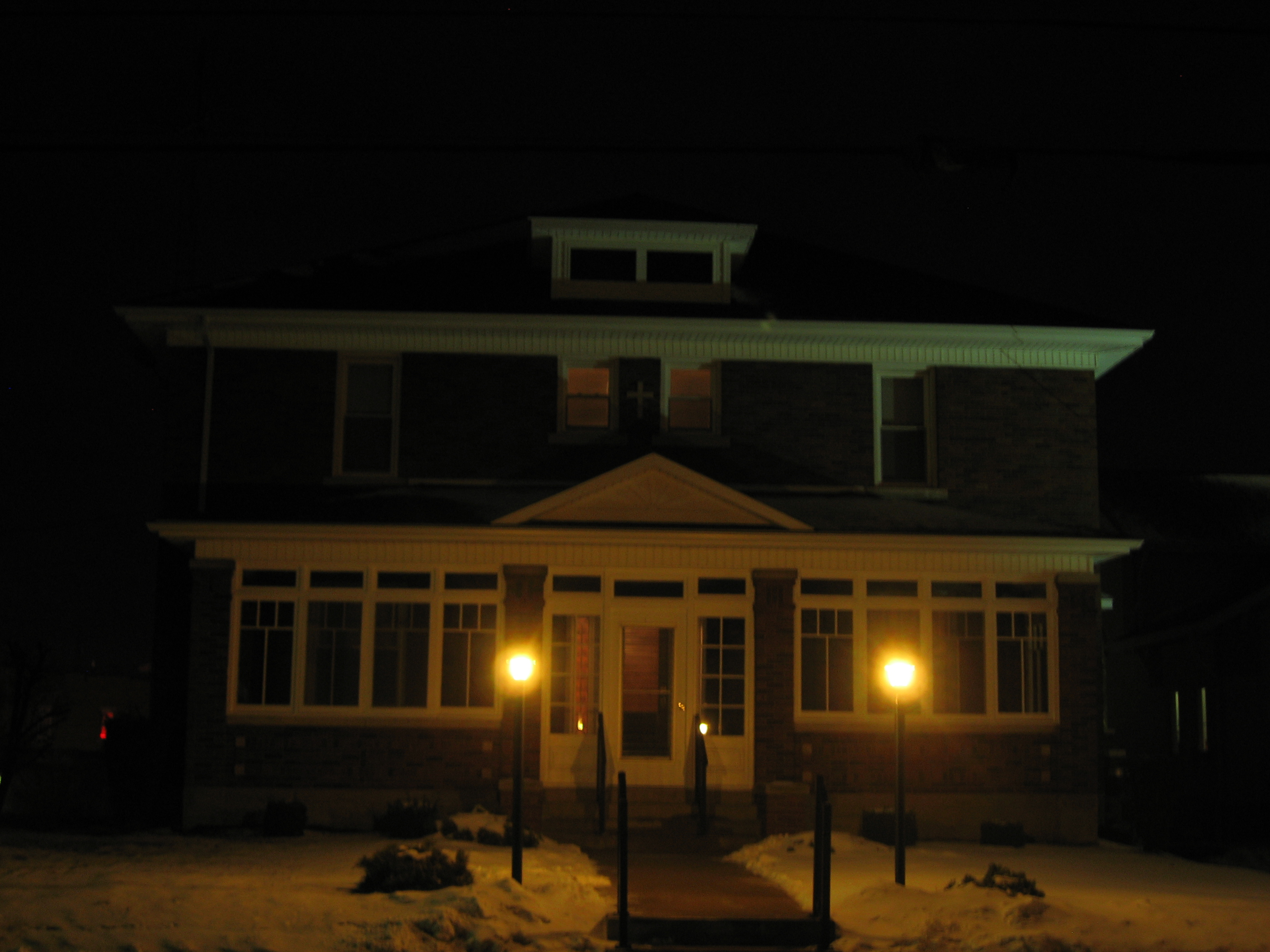 Front of the rectory at St. Louis' Catholic Church, located on North Star-Fort Loramie Road east of its junction with U.S. Route 127 in North Star, Ohio, United States. Built in 1914, the church and its rectory were added to the National Register of Historic Places as a part of the Cross-Tipped Churches of Ohio Thematic Resources.